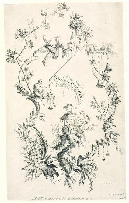 Print, 1755, Jean Pillement (designer and engraver) V&A Museum no. 28639A Techniques - Etching, ink on paper Place - London, England Dimensions - Height 37.5 cm (paper), Width 22.7 cm Object Type - This print is an etching, made by using acid to burn lines into a metal plate that are then filled with ink. The plate is then pressed onto paper, which transfers the image. Ever since the various East India Companies had begun to introduce porcelain and other exotic oriental goods to Europe in the 17th century, East Asia had fascinated Europeans.This print is the title-page to A New Book of Chinese Ornaments (1755), the first pattern book of Chinoiserie designs by the French painter and designer Jean-Baptiste Pillement (1728-1808). This print demonstrates how Pillement adapted traditional French Rococo ornament to his own idea of Chinese patterns suited to British taste. The curving foliage ladder is a typically French Rococo shape and recalls so-called Grotesques (decorative patterns full of sinuous lines, cloudy foliage, monkeys, sphinxes and other fancies) by the French master Jean Bérain (1639-1711). The wispy pavilion seemingly suspended in space, the monkey and cup of tea balanced on a branch, a Chinese man teetering on a C-shaped scroll, these are all characteristic of Pillement's work and suggest a fantastic, airy world, one that the artist delighted in portraying. Time - The elegant Chinoiserie style adopted by Pillement had already been developed in France by artists such as Jean-Antoine Watteau (1684-1721) and François Boucher (1703-1770). In Britain Pillement's work was very influential and widely used. His patterns have been identified on lacquered and marquetry furniture, silver, enamels, textiles, porcelain and earthenware.